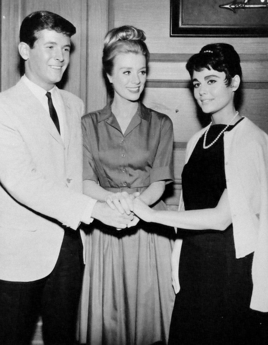 Photo of Inger Stevens as Katy with guest stars Yale Summers and Sharon Hugueny from the television program The Farmer's Daughter . The episode is "Mismatch Maker" and deals with Katy introducing a Congressman's son (Summers) to an Ambassador's daughter (Hugueny).